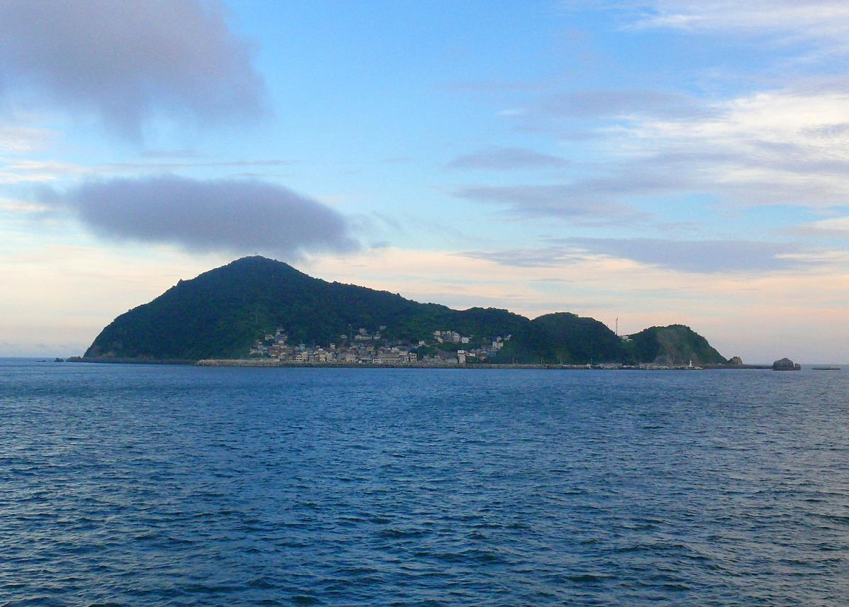 Image of Mie Prefecture Toba City Kami island in Japan. Taking a picture from Ise-wan ferry. 三重県鳥羽市の神島を伊勢湾フェリーのデッキより撮影。